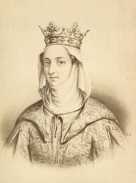 CDV of XIX century